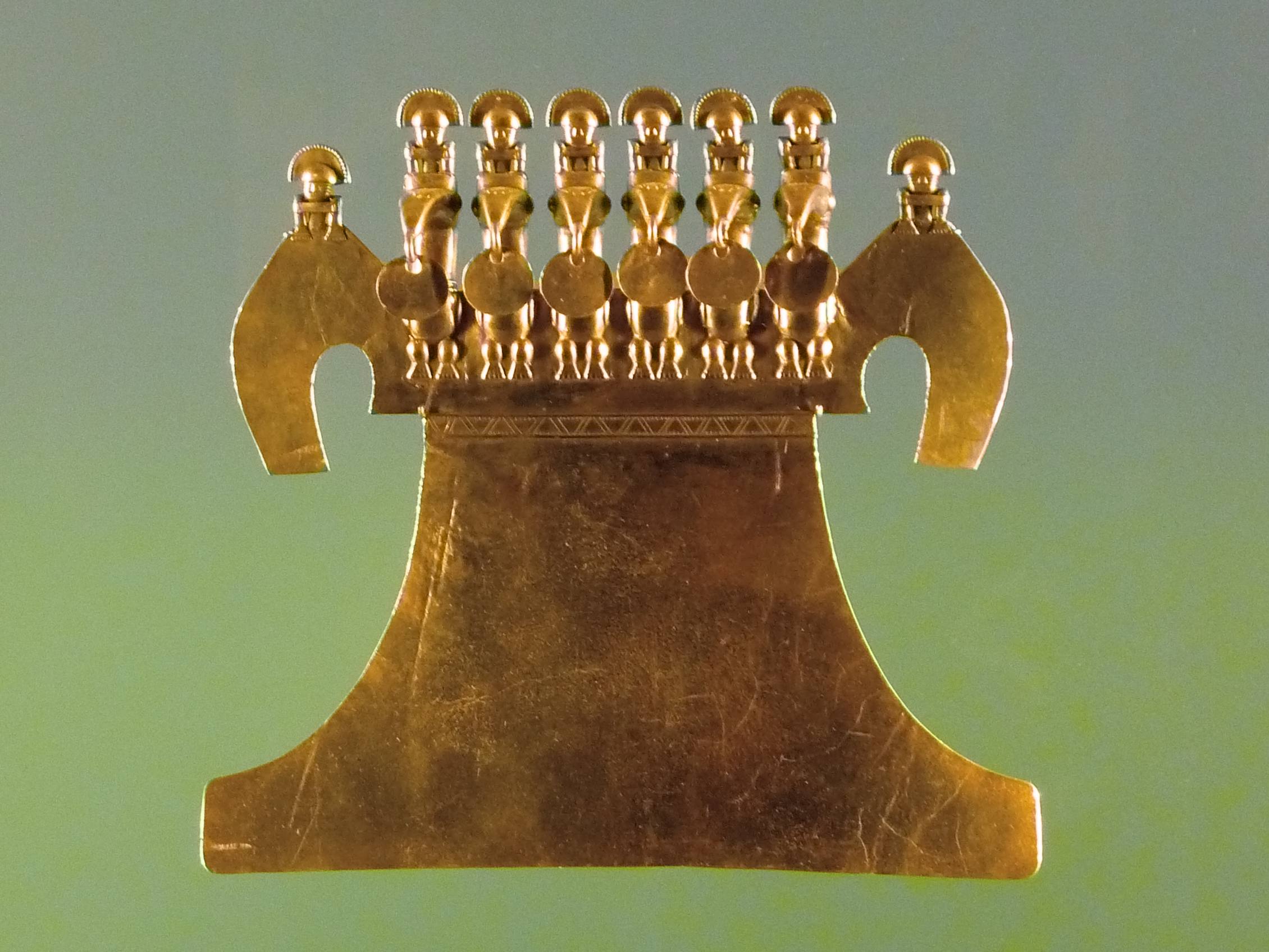 In this pectoral, six birds with folded wings and crouching human figures on their heads, rest on the back of a larger bird. Another two human figures, also in a squatting position, sit on its open wings. Reference: Museo del Oro, Bogotá Tumbaga A.D. 600 - A.D. 1600 Guatavita, Cundinamarca 21 x 22,5 cm Reference: Museo del Oro, Bogotá